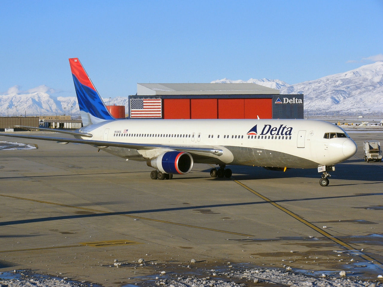 Delta Air Lines 767-300 (N138DL) at Salt Lake City Int'l Airport with Delta hangar also shown. Photo by Skyguy414